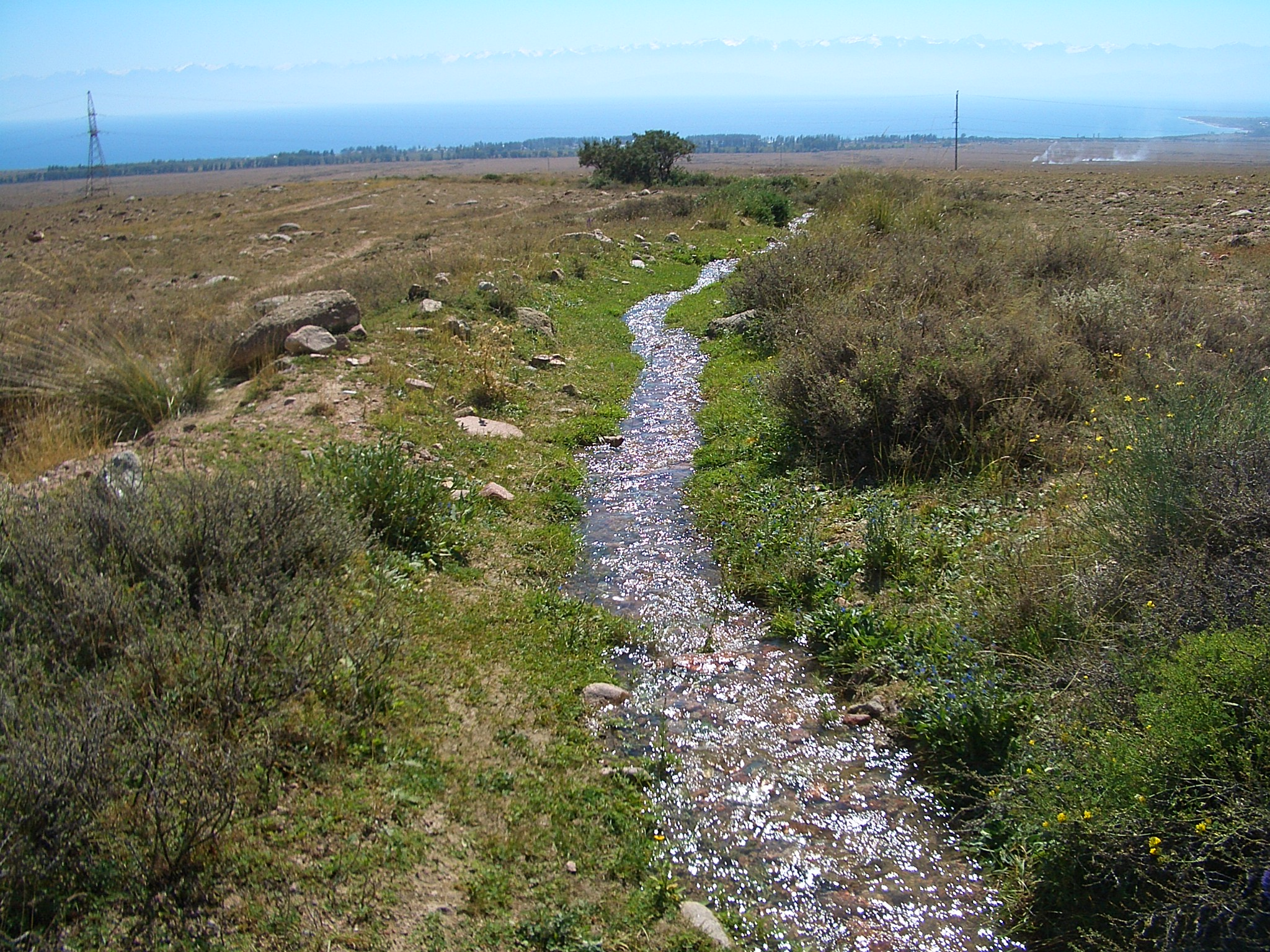 A strip of vegetation along the aryk (a channelled creek) in the desert outside of Tamchy. Lake Issyk Kul (into which the creek eventually flows) is in the far background.